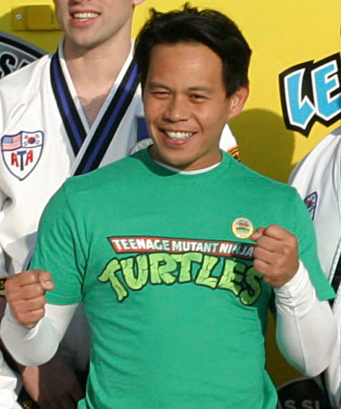 American actor Ernie Reyes Jr., at a 2009 TMNT 25th anniversary event. © Rubenstein, photographer Martyna Borkowski